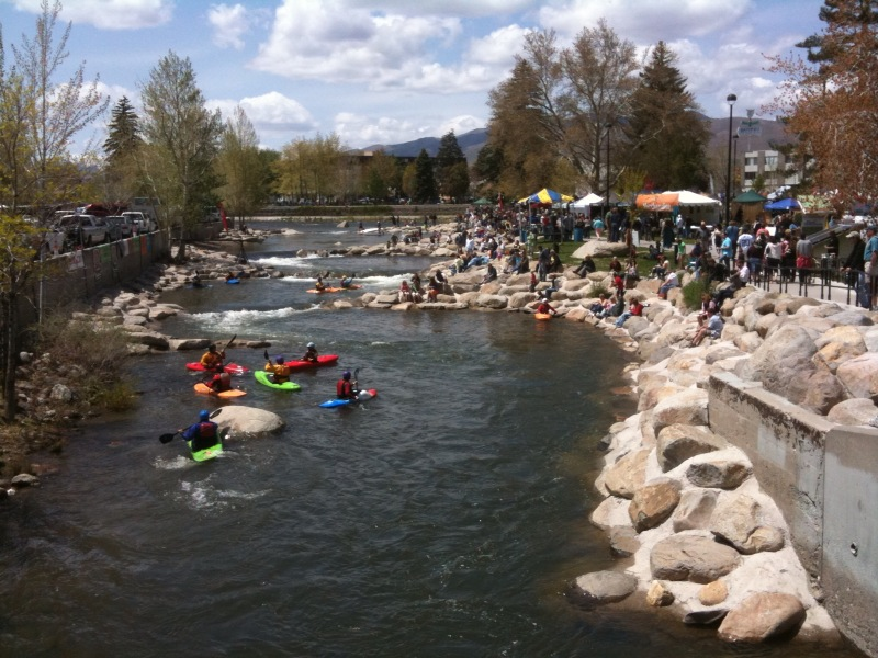 "Reno River Festival and Runamuck foot race. Pretty fun time downtown." (original flickr description)